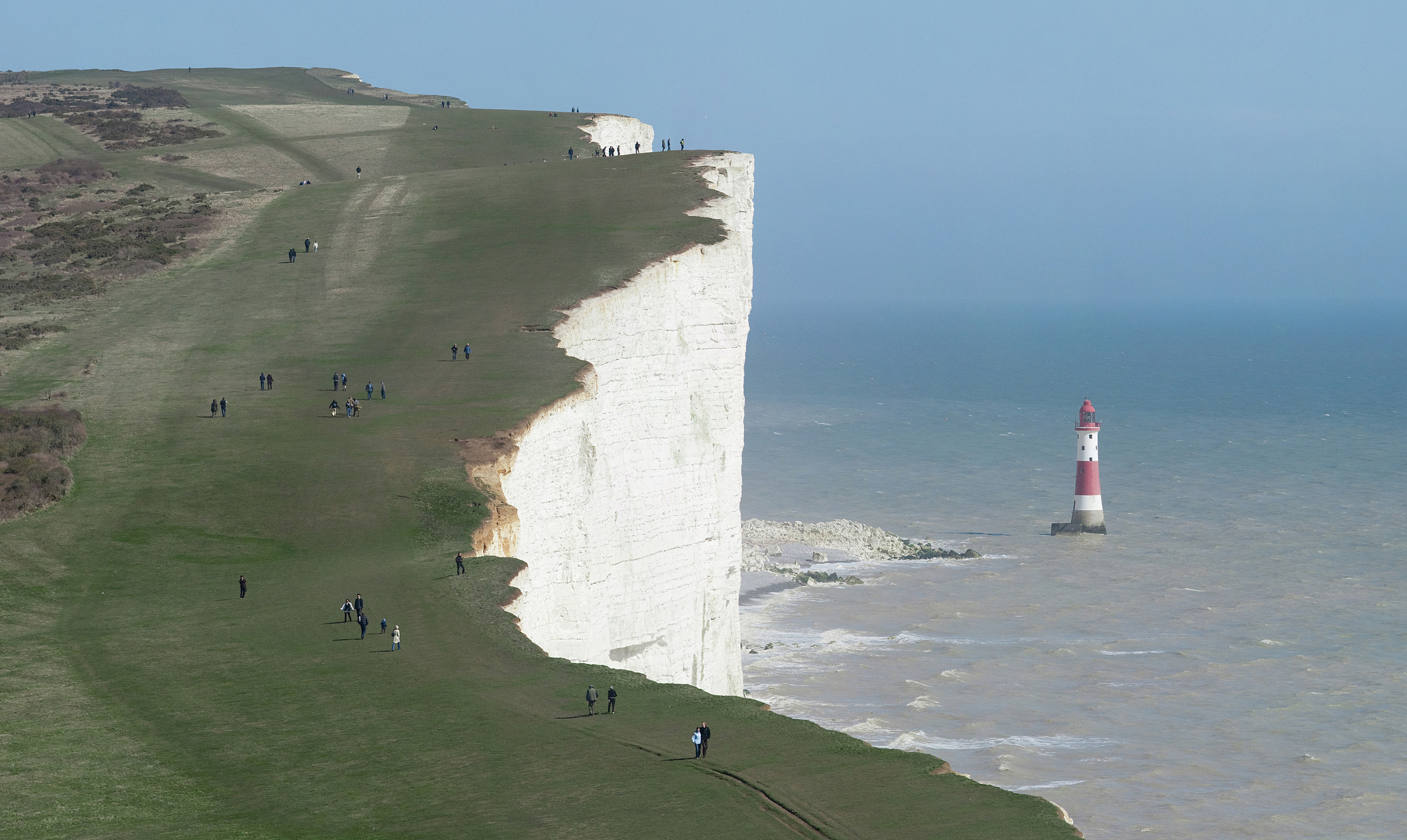 The cliffs of Beachy Head and the Lighthouse below, as viewed along the South Downs Way in East Sussex, England.